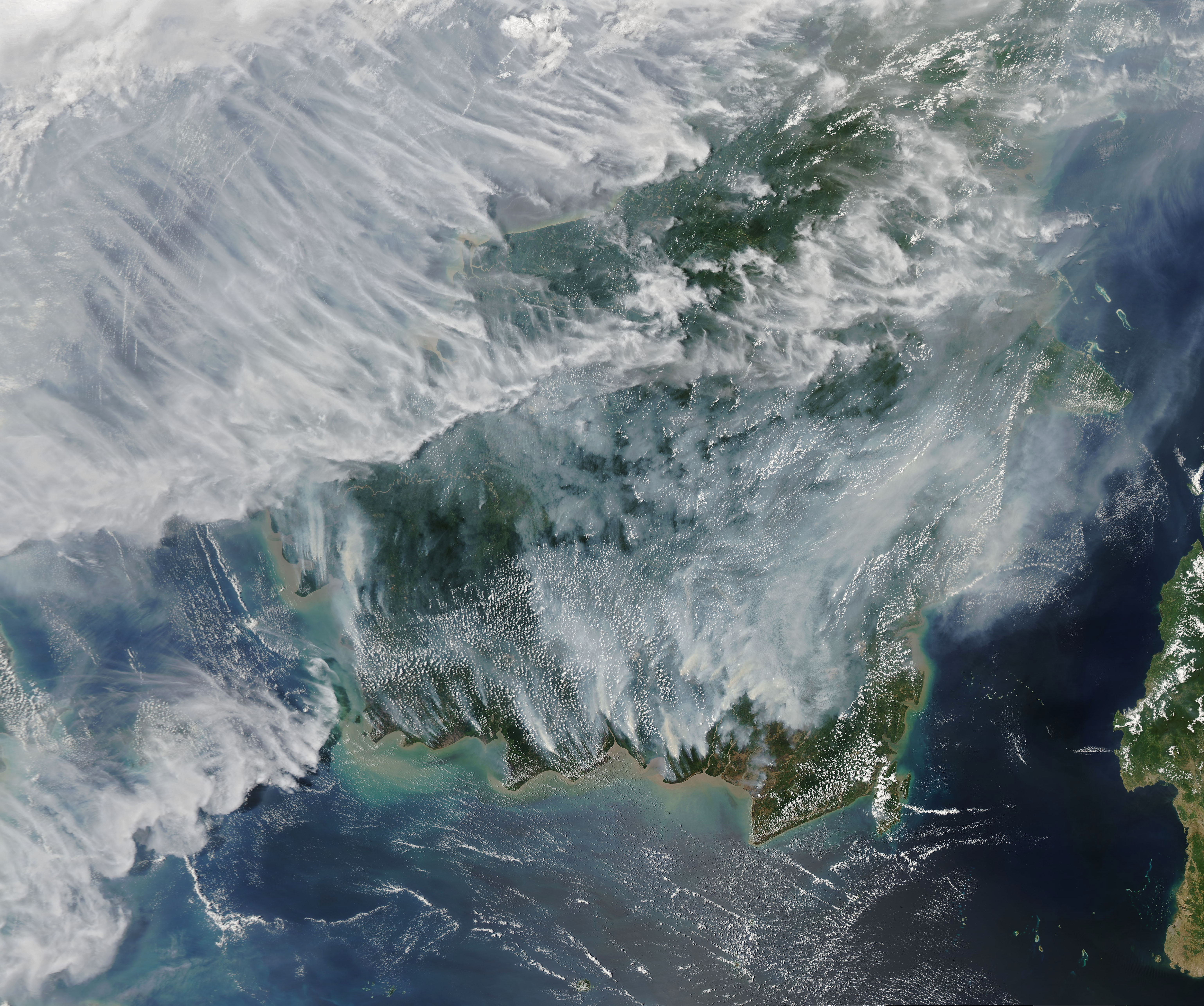 After several relatively quiet fire seasons in Indonesia, an abundance of blazes in Kalimantan (part of Borneo) and Sumatra in September 2019 has blanketed the region in a pall of thick, noxious smoke. Caption by Adam Voiland.